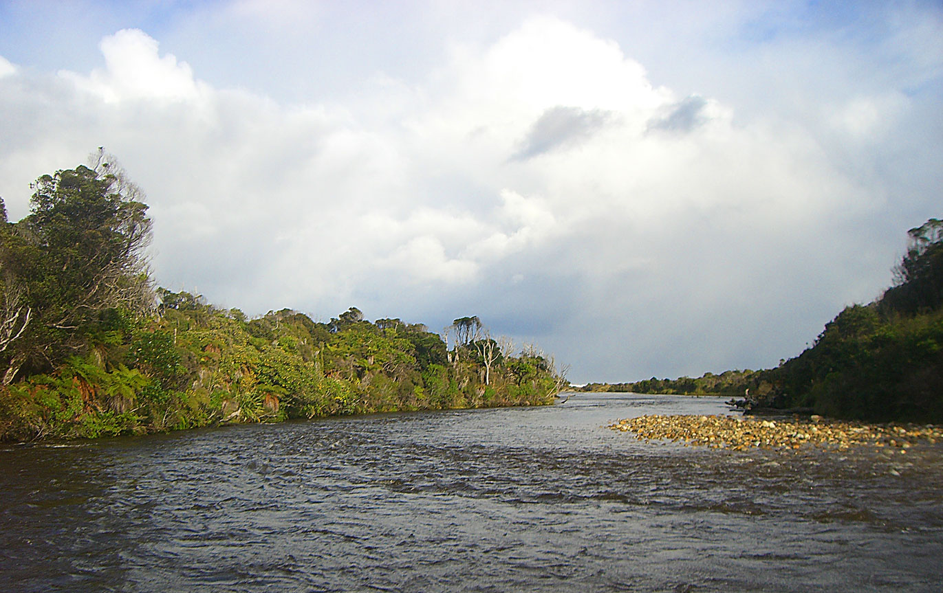 Wairaurahiri river in Southland looking out towards Foveaux Strait. Near Waitutu Lodge in Fiordland